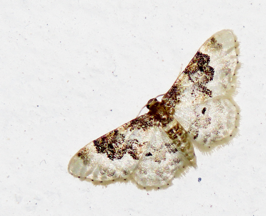 Idaea rusticata in Kiev, Ukraine